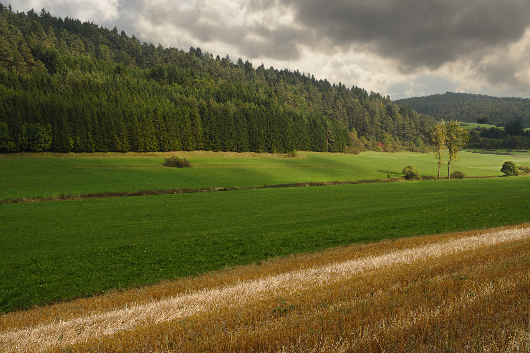 Upper Bära, West Swabian Alb. geological research found traces of a very huge drainage system of Pliocene time, which drained even part of the Black Forest to the Upper Danube. That former water system used both, the valleys of the Ur-Schlichem and the Ur-Bära. Today the Alb village Tieringen is the location, where the rivers issue. The Schlichem now starts its way towards the Neckar and the Bära towards the Danube.